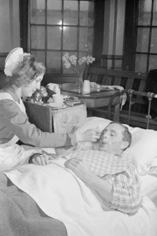 An American Nurse in Britain- the work of Sister Trotter at Park Prewett Hospital, Basingstoke, England, 1941 Sister Trotter feeds Corporal Read at Park Prewett Hospital in Basingstoke. Corporal Read has injured his hip, so is unable to sit up to eat.